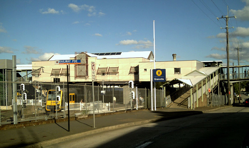 Railway Station, Granville, Parramatta, Sydney, NSW, Australia